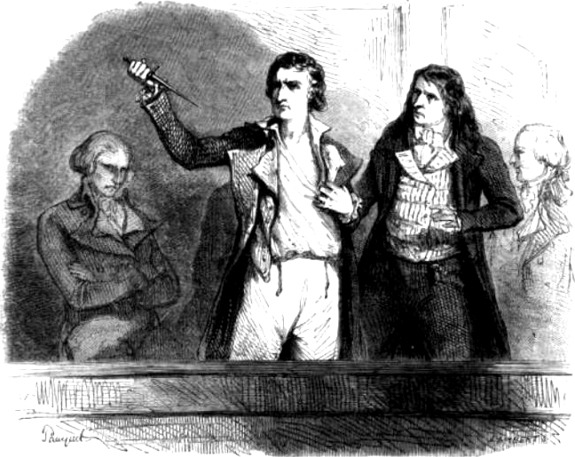 The Suicide of Charles Éléonor Dufriche-Valazé in the Revolutionary Tribunal